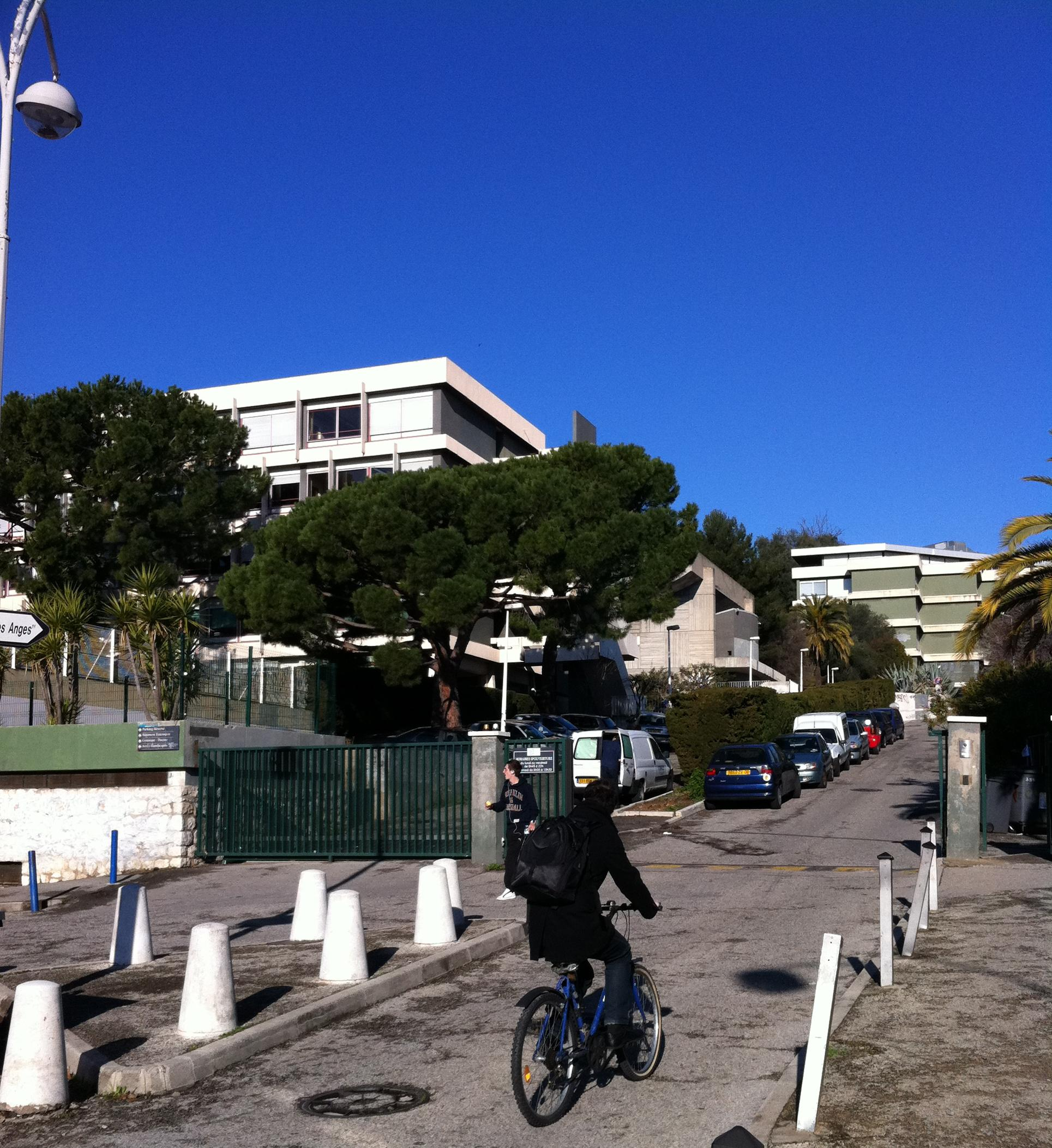 The campus Carlone of University of Nice Sophia Antipolis, in Nice, France.